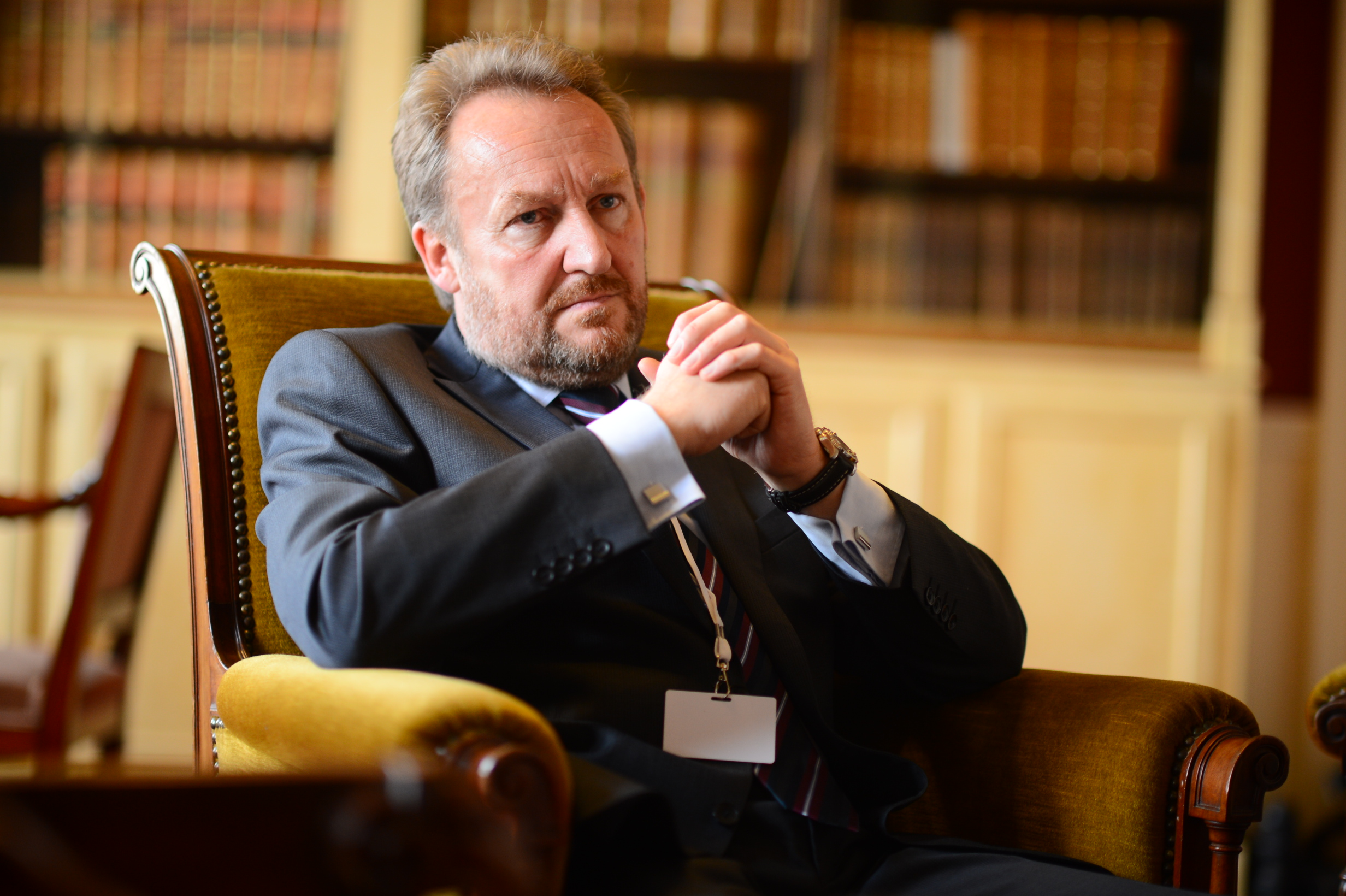 EPP Summit, Dec. 2012